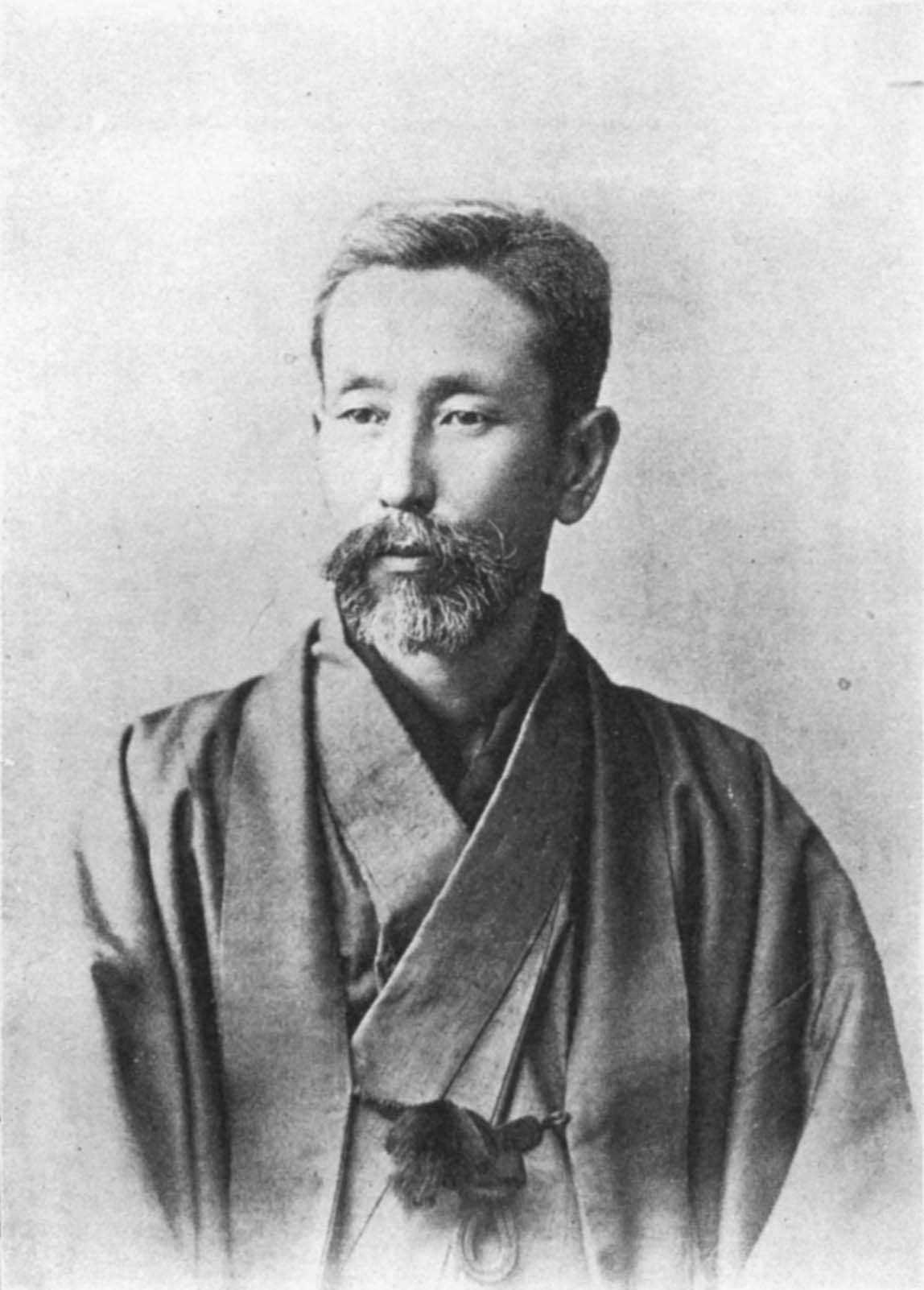 Late Taizō Masaki, former principal of the Tokyo Higher Technical School.